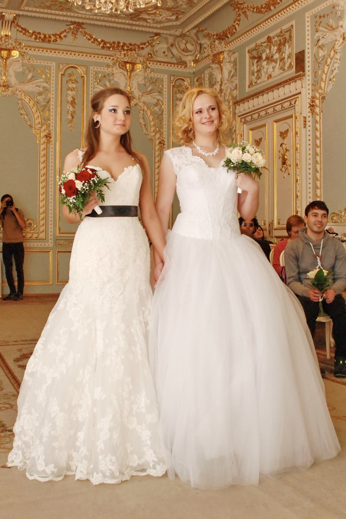 Same-sex wedding ceremony of Irina Shumilova and Alyona Fursova at Wedding Palace No4 in Saint Petersburg. Irina is a trans woman who was in the process of transitioning while was still officially a man at the time of wedding.